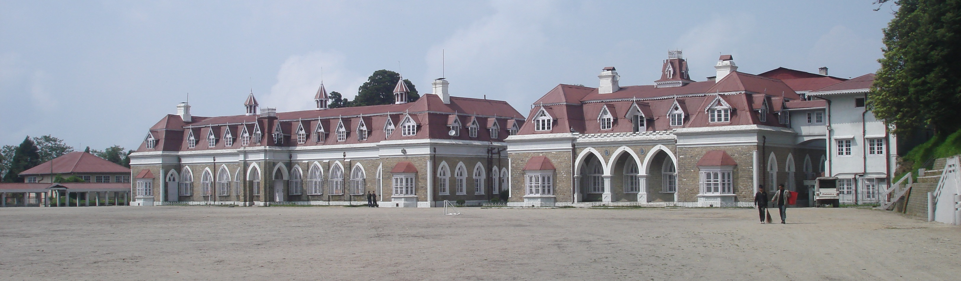 Cotton and Milman Halls as seen from Top Field. Uploaded for Contribution to Project St. Paul's School, Darjeeling Encyclopedia.